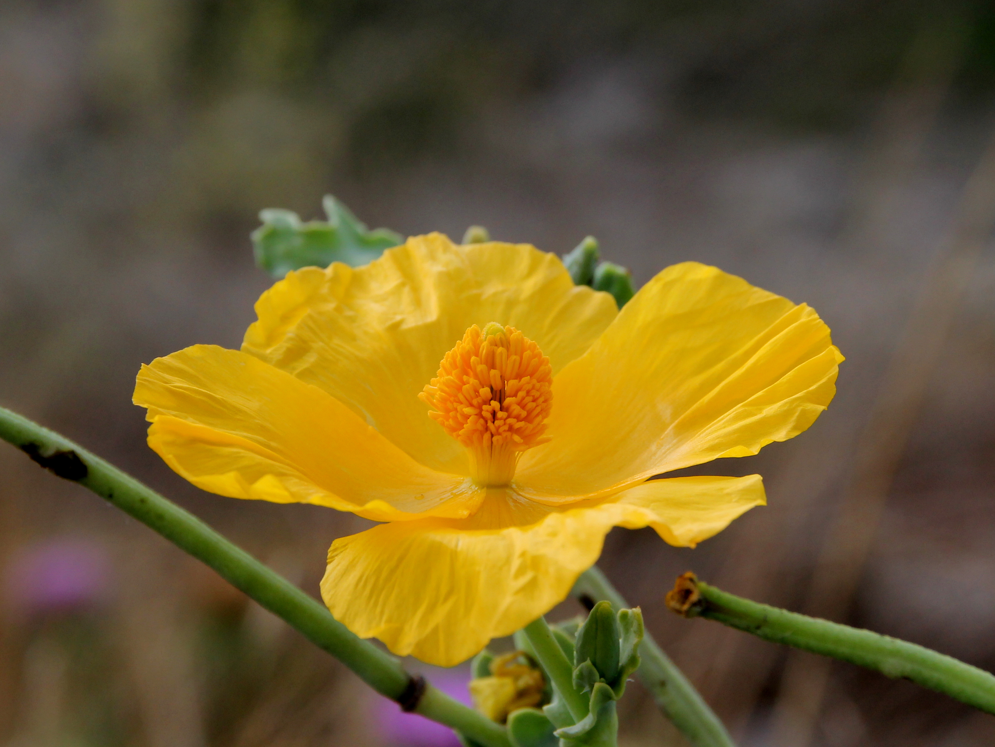 yellow hornpoppy